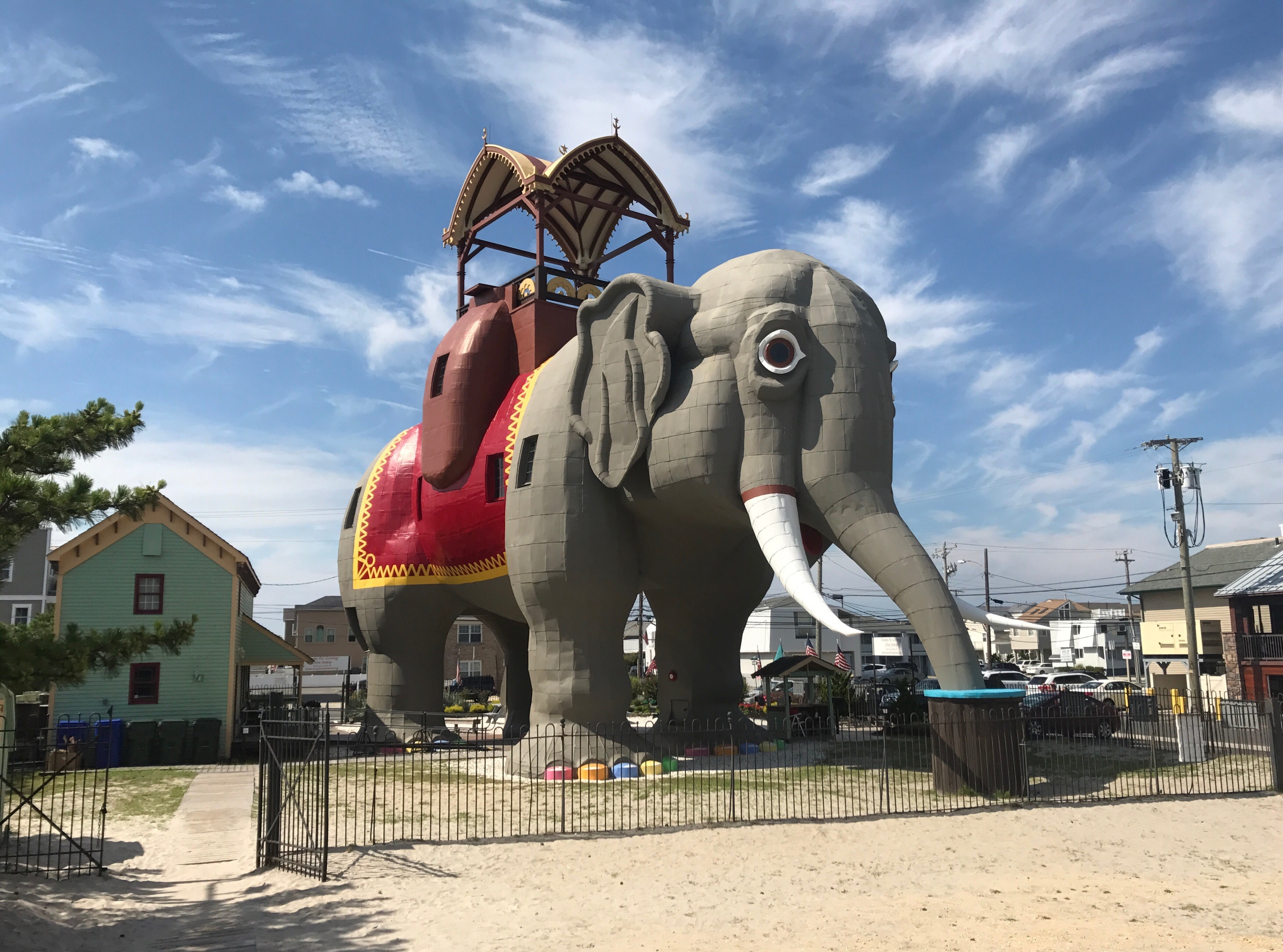 This beautiful photo of Lucy the Elephant was taken by my wife, Naomi Love of New Jersey.